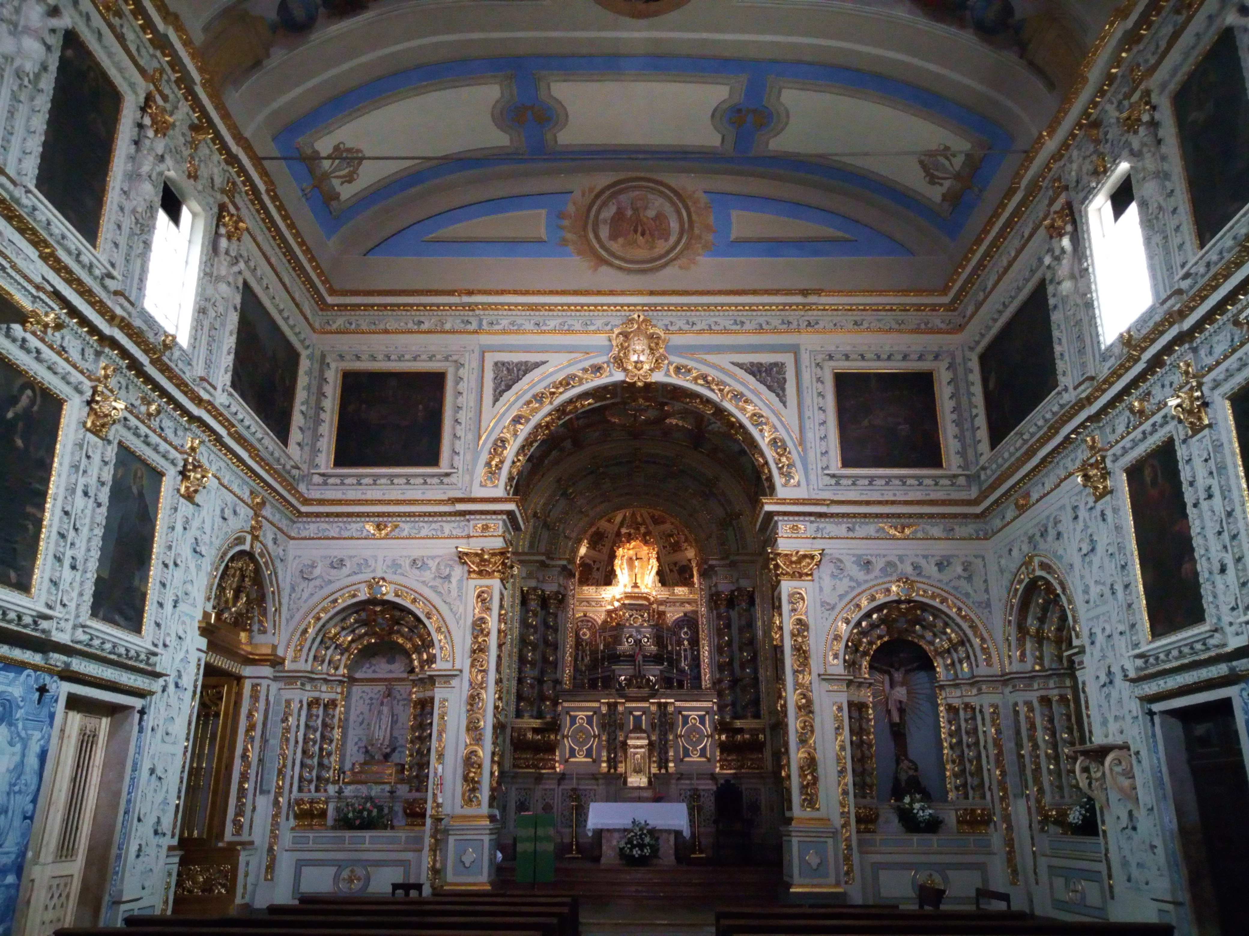 Church of São Sebastião da Pedreira in Lisbon, Portugal